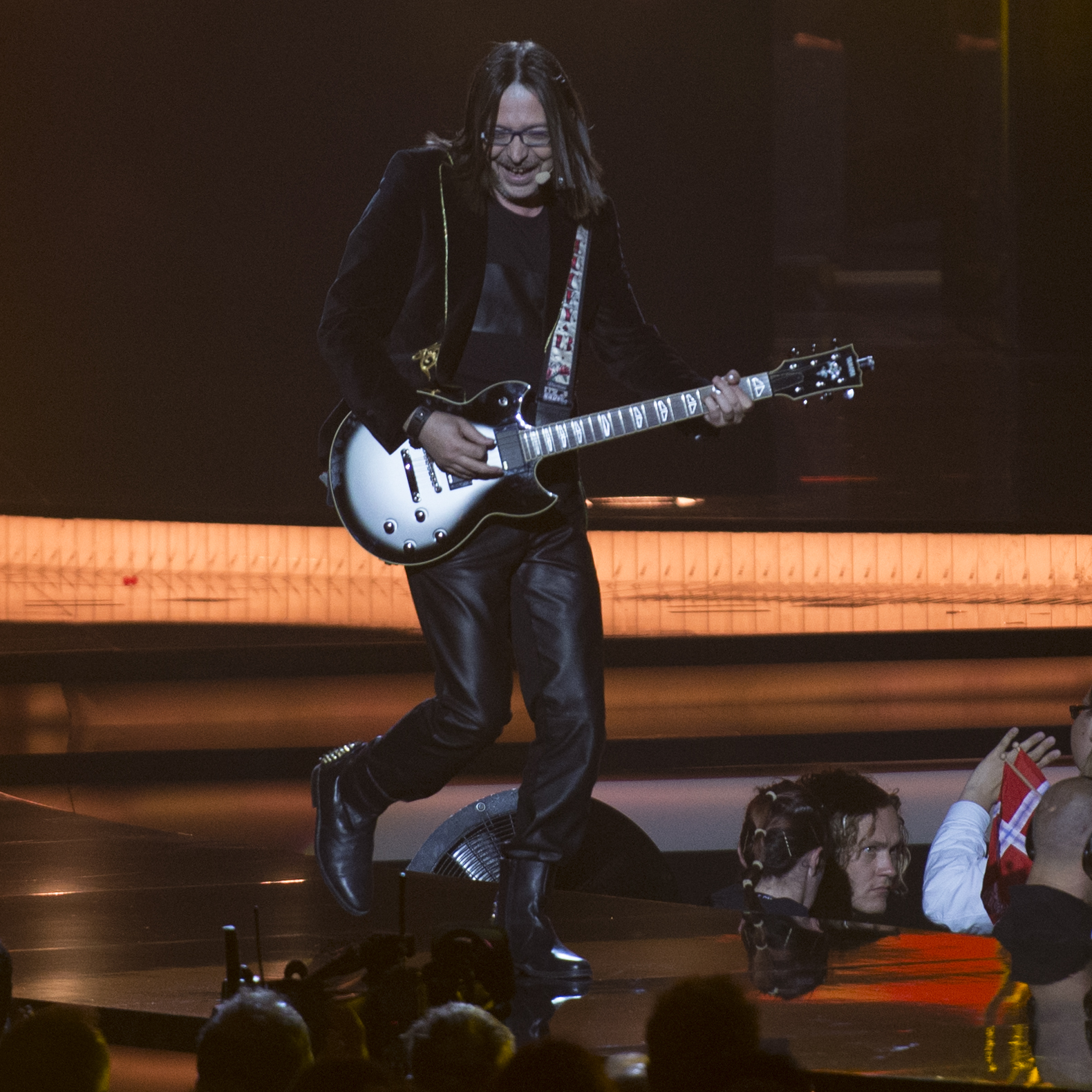 Adrian Lulgjuraj & Bledar Sejko from Albania performing their song in the second dress rehearsal for the second semi final of the Eurovision Song Contest 2013.